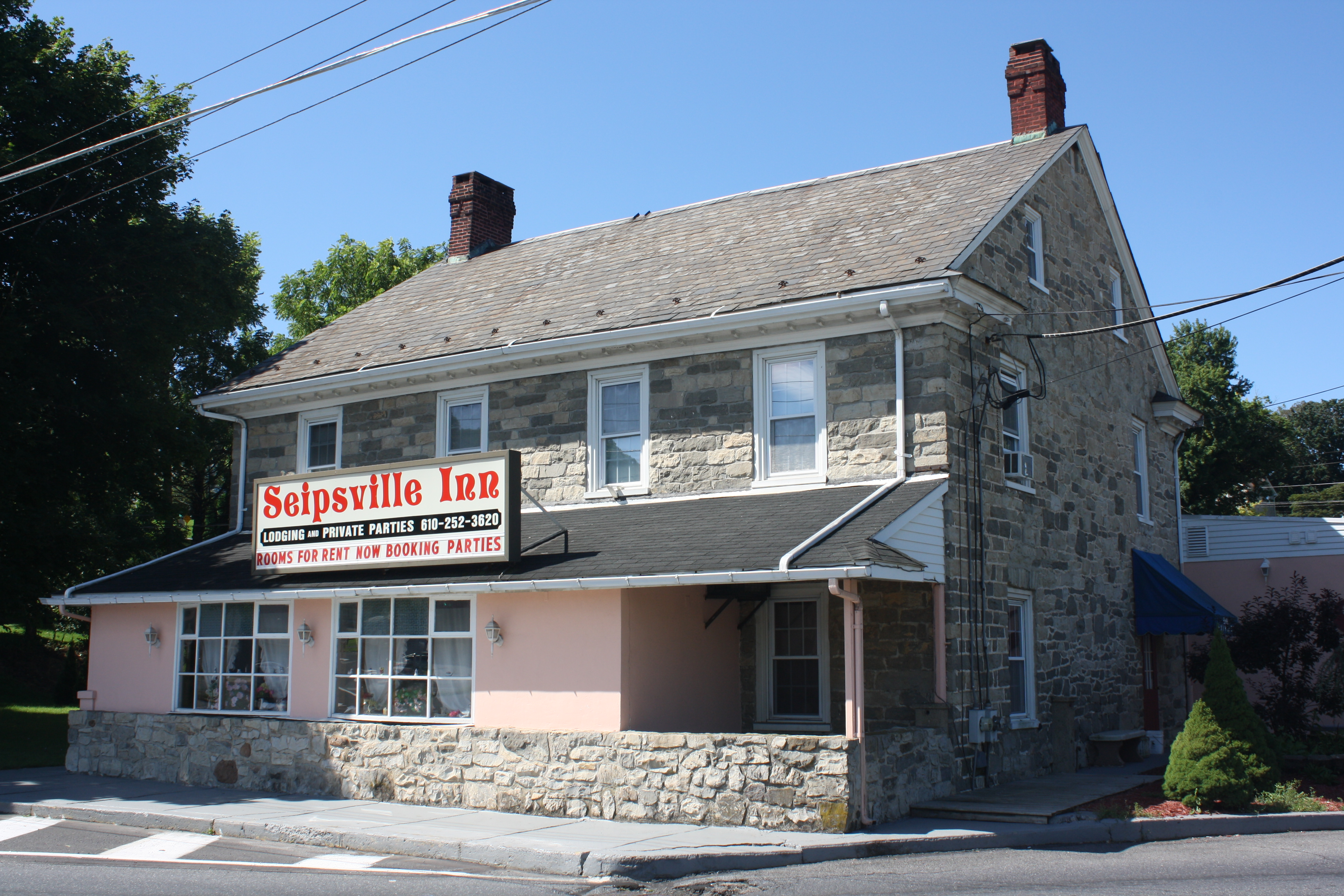 Seipsville Hotel (1760) is a historic inn and tavern located at 2912 Old Nazareth Rd. Palmer Township, Northampton County, Pennsylvania.